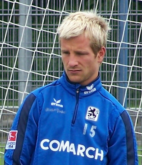 Stefan Aigner, TSV 1860 München, Training Grünwalder Straße